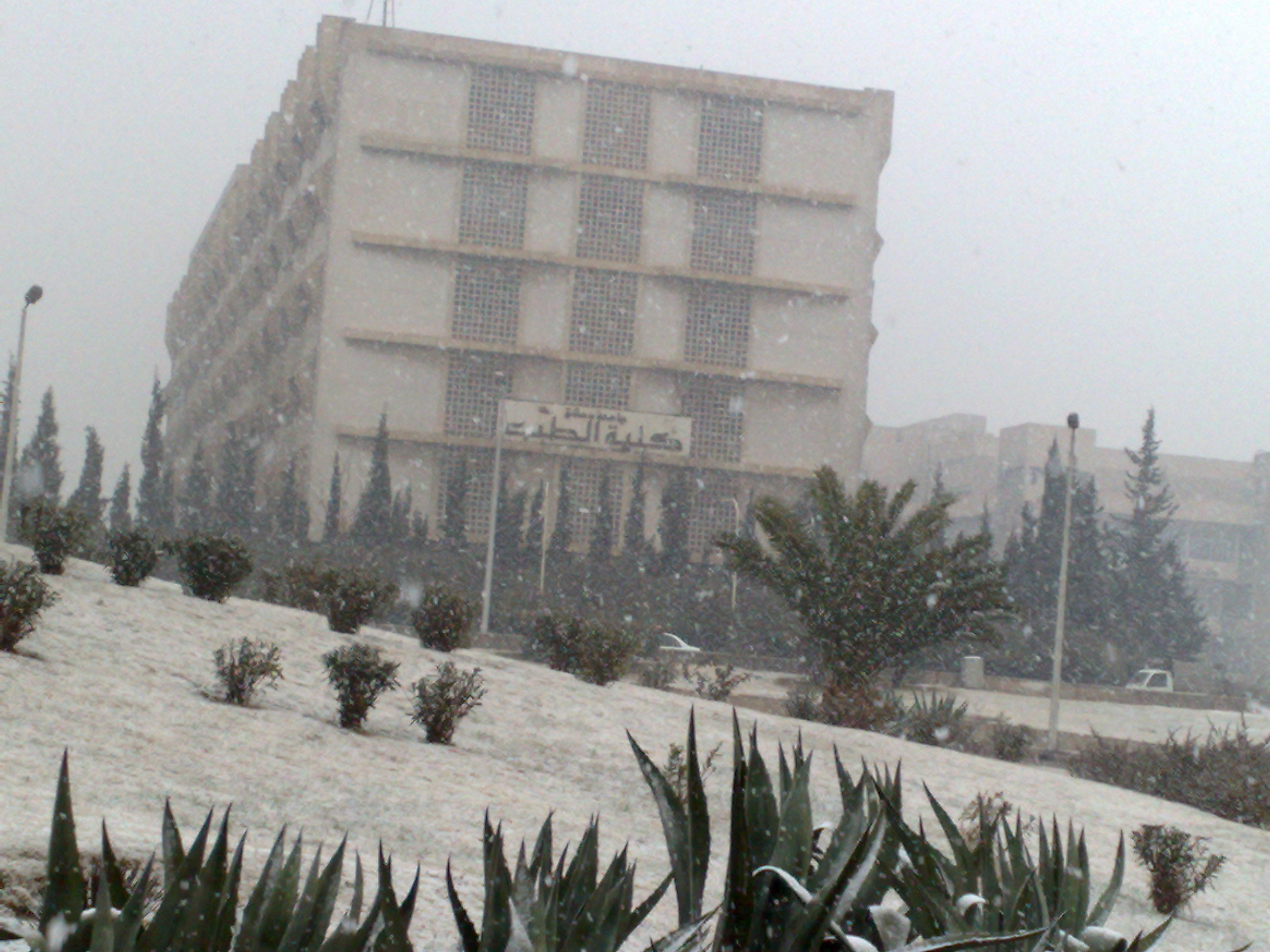 Faculty of Medicine - Damascus in winter while snowing